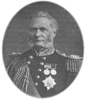 Admiral Astley Cooper Key - From a print by the London Steroscopic Company